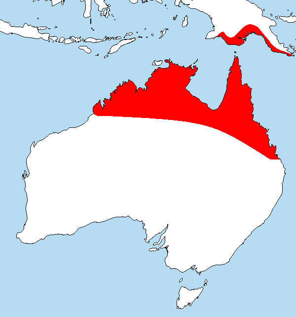 Chlamydosaurus kingii's range according to Wilson & Swan (2010): A complete guide to reptiles of Australia, New Holland Publishers, and the IUCN Red List. Not 100% exact, it's rather meant to give the reader a basic idea of Chlamydosaurus kingii's range.